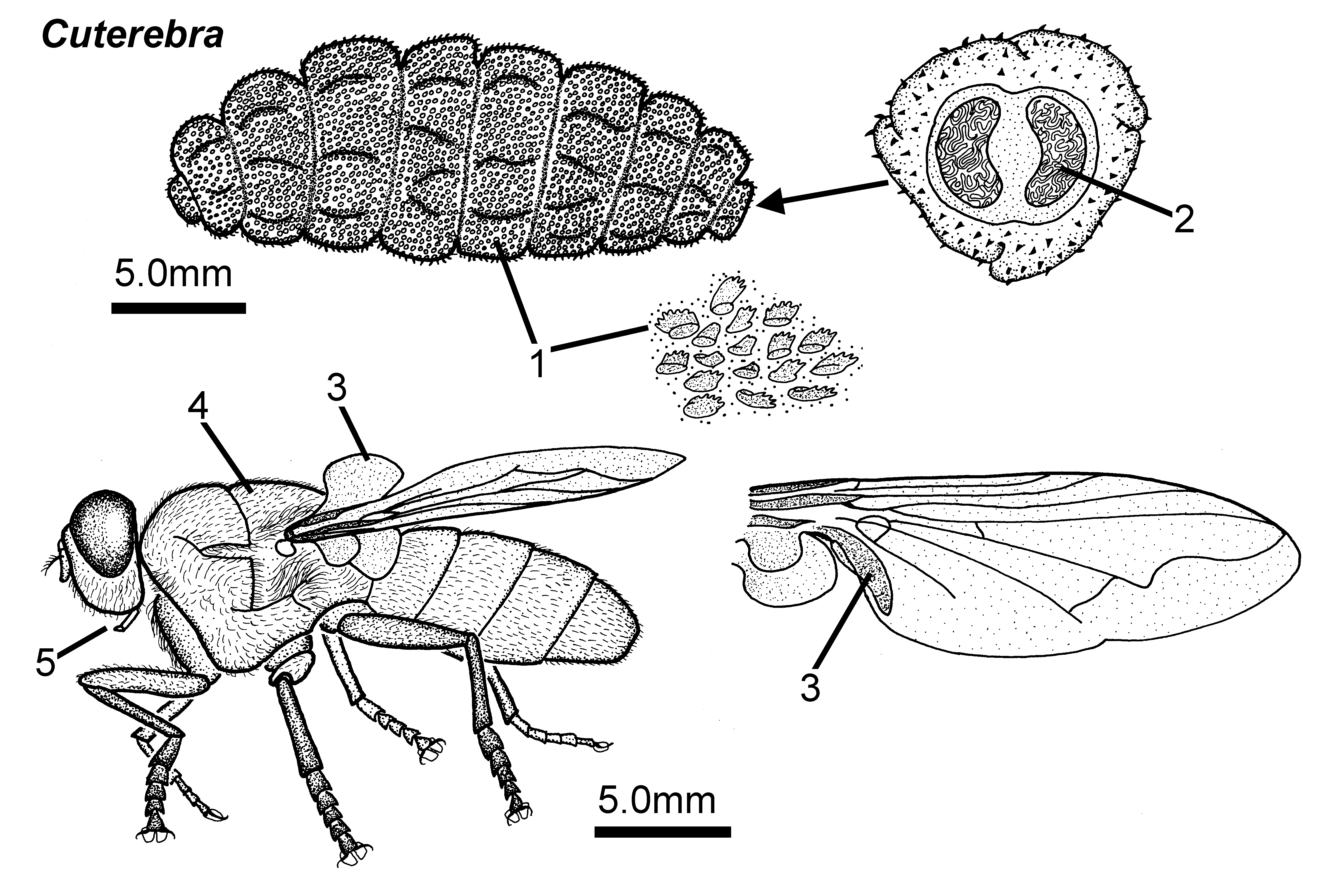 Cuterebra larva, adult lateral. Genus characteristics: 1- Fully mature larvae are stout and covered in scale-like spines. 2- Posterior spiracles of larvae are kidney shaped and with many fine, curved openings. 3- Alula of the wing is conspicuously large. 4- Abdomen and thorax is densely covered with short setae. 5- Mouthparts are residual.